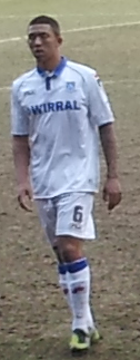 Liam Palmer playing for Tranmere Rovers on 29 March 2013.